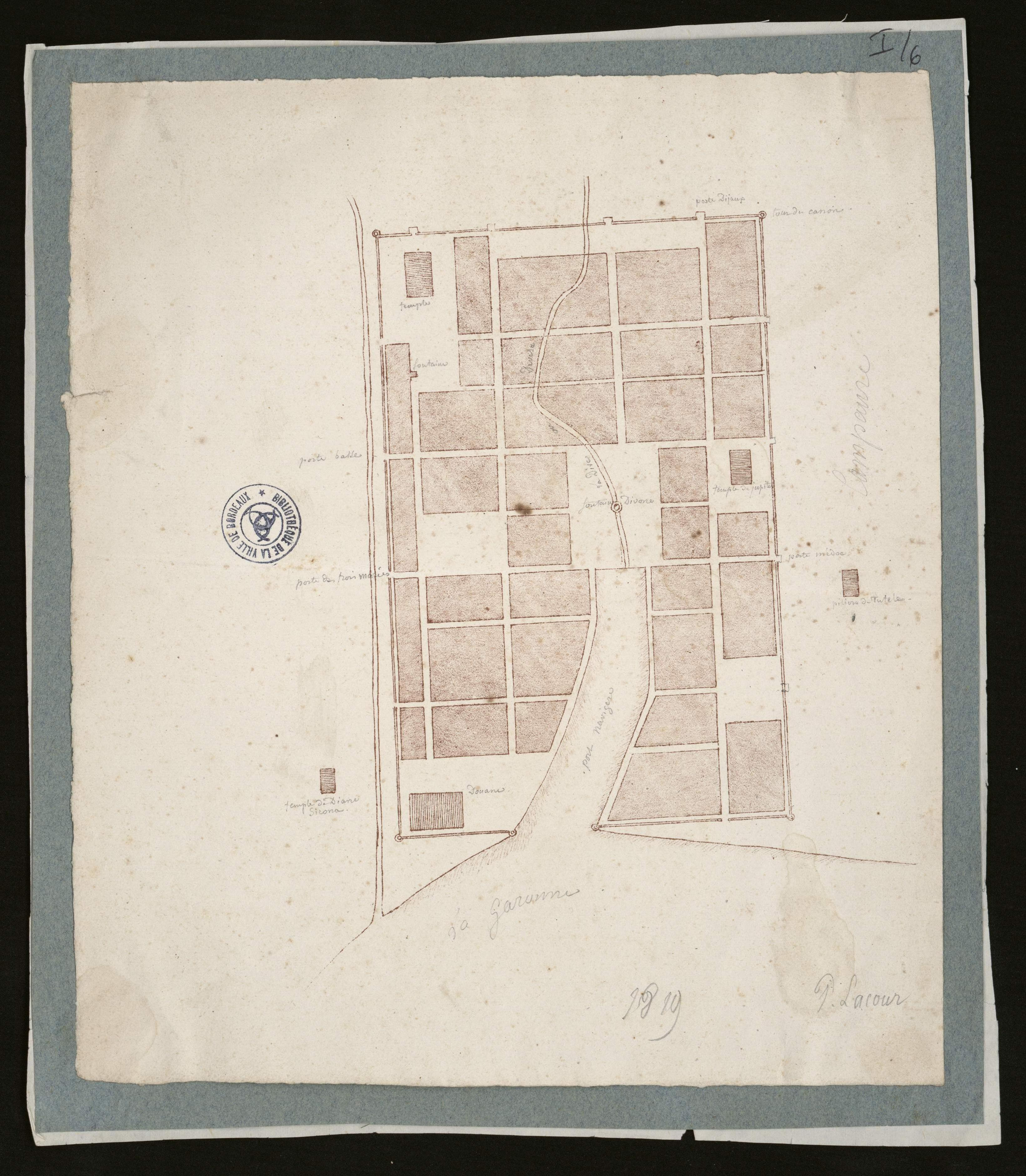 Map of Bordeaux during Ancient time by Pierre Lacour (1778-1859).